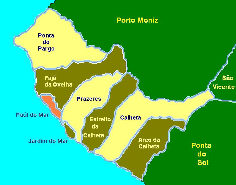 Calheta district at Madeira island